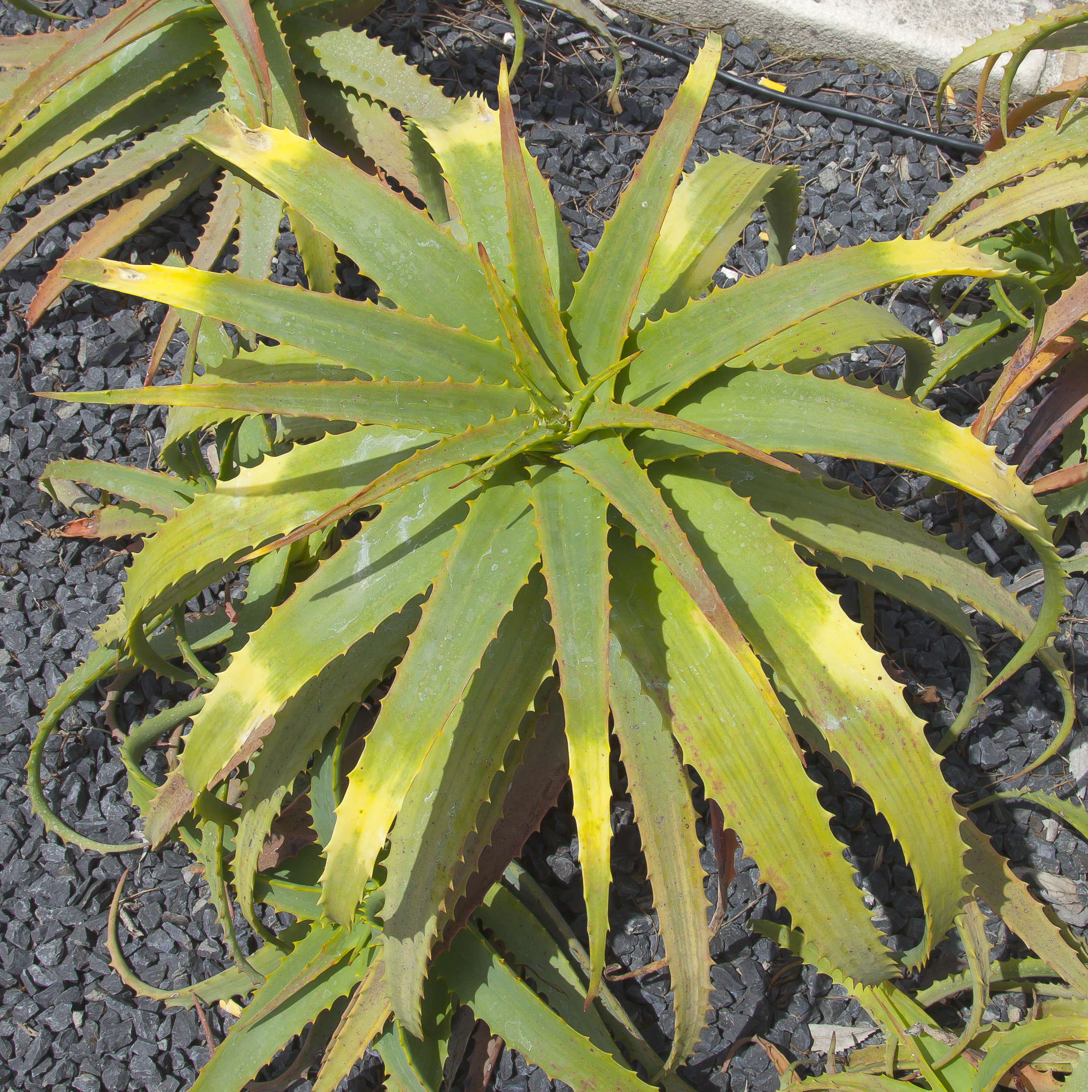 Aloe arborescens, Lisbon, Portugal